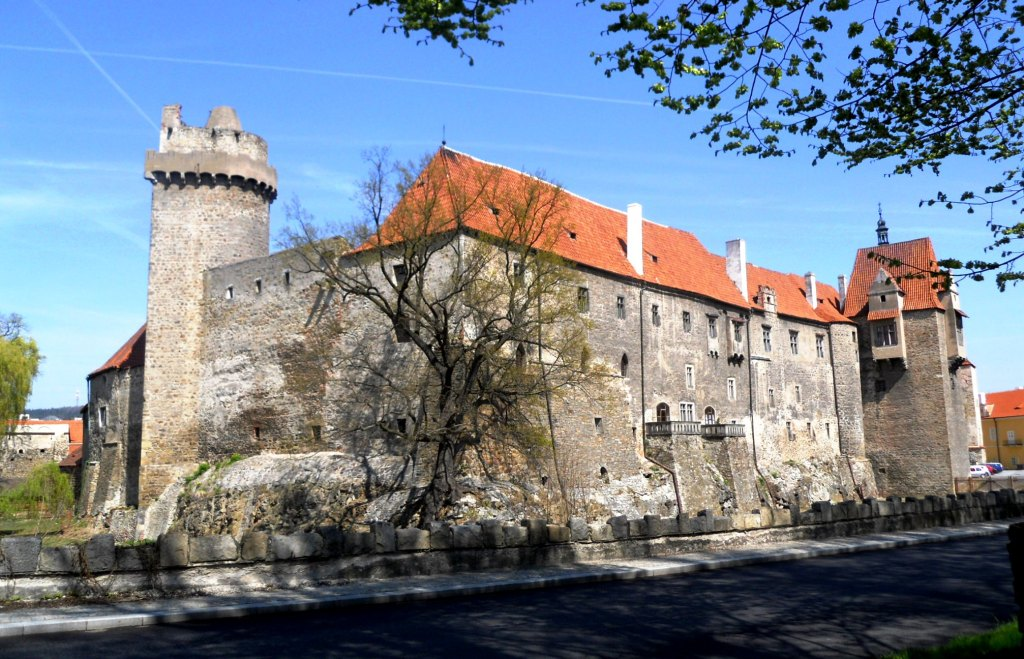 Strakonice castle Rumpal and Jelenka towers